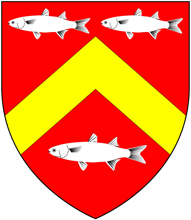 Arms of Militon of Meavy in Devon: Gules, a chevron or between three millets hauriant argent (Pole, Sir William (d.1635), Collections Towards a Description of the County of Devon, Sir John-William de la Pole (ed.), London, 1791, p.493). A "Millet" must be assumed to be the modern Mullet fish. As depicted on heraldic quarterings of William IV Strode (1562–1637) on his monument in St Mary's Church, Plympton. Not "mullets" which in heraldic language are stars. Also shown sculpted on monument to Robert III Cary (d.1586) of Clovelly, Devon, who married Margaret Milliton, daughter of John Milliton and widow of John Giffard of Yeo in the parish of Alwington, North Devon. South wall of chancel, All Saints Church, Clovelly. Both images show two dorsal fins and two fins on the belly, characteristic of the mullet fish Mugil cephalus(see image File:Mugil cephalus.jpg). Image based on drawing of Mugil Cephalus (File:FMIB 51638 Striped Mullet, Mugil cephalus (L) Wood's Hole, Mass.jpeg) by Jordan, David Starr (1907) Fishes, New York City, NY: Henry Holt and Company